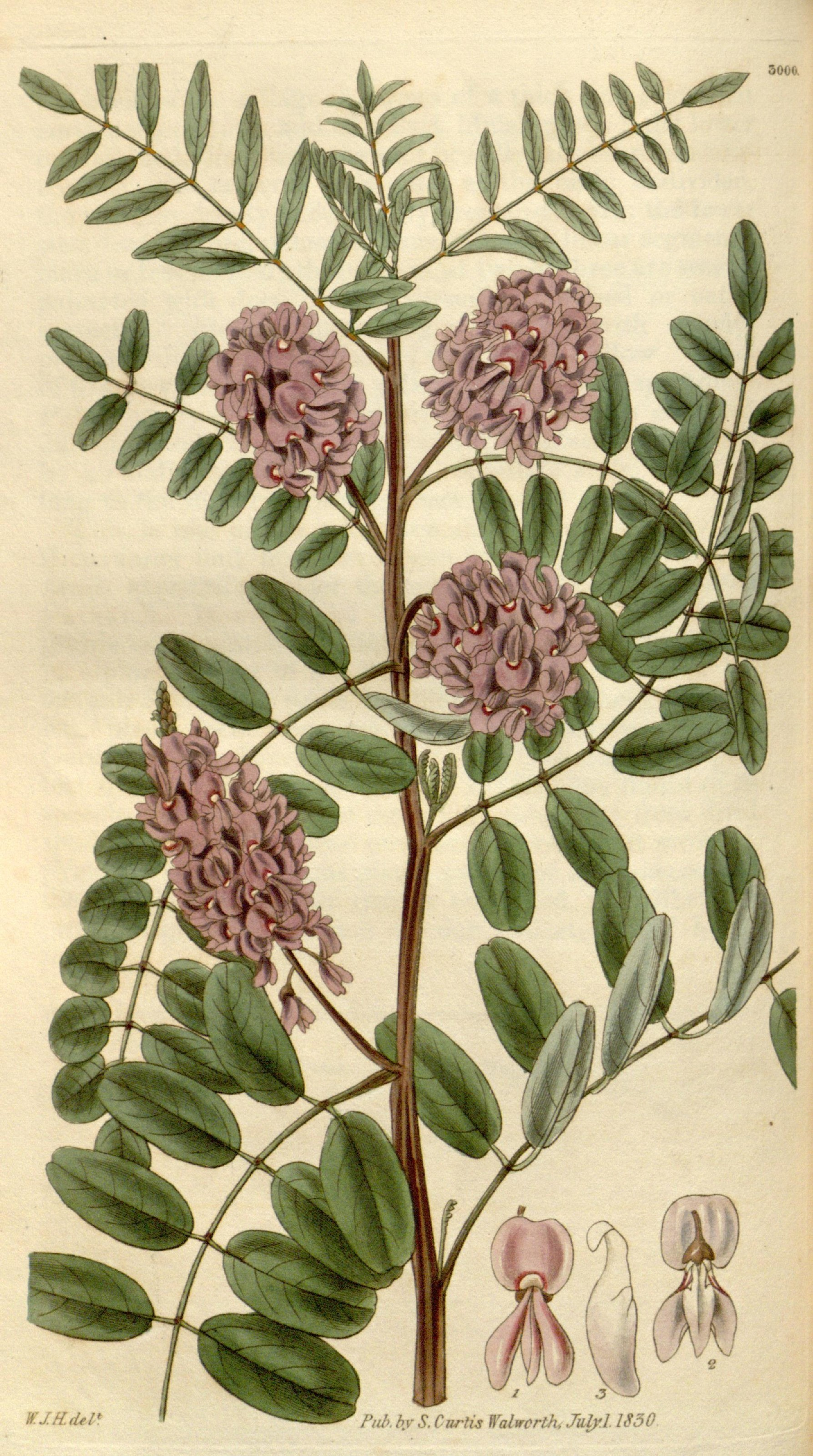 Listed in the magazine as Indigofera sylvatica. No category available and no synonym found. Richard Avery (talk) 10:01, 7 September 2015 (UTC)